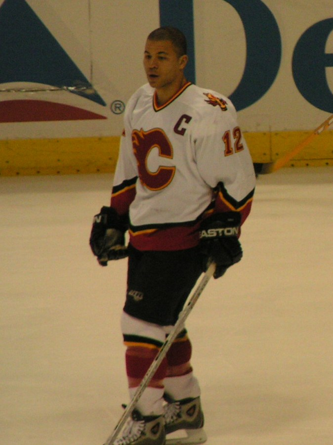 Jarome Iginla while warmup in Anaheim